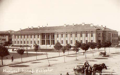 Government office building in Eskişehir, Turkey.